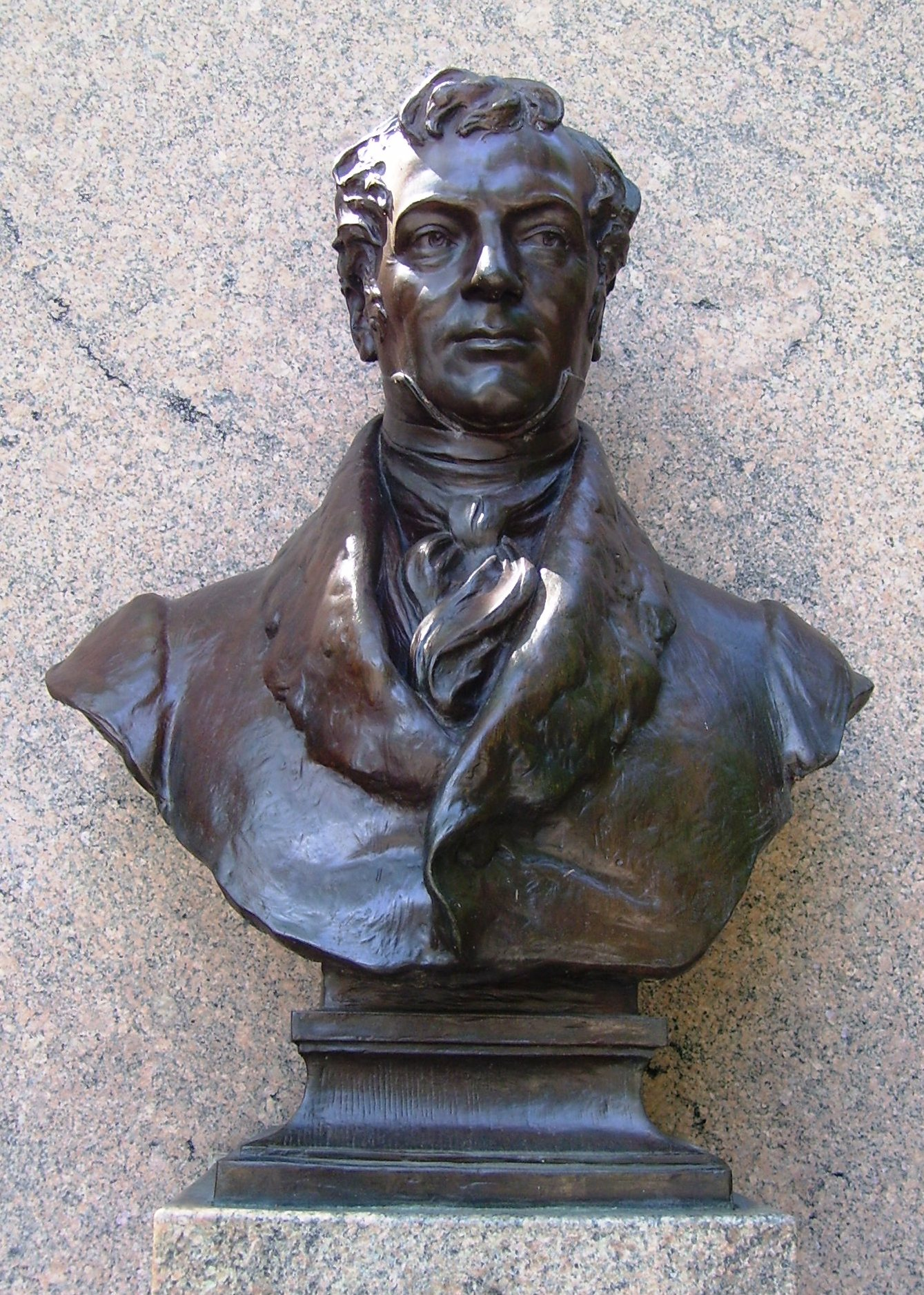 Washington Irving Memorial at the intersection of West Sunnyside Lane and North Broadway in Irvington, New York